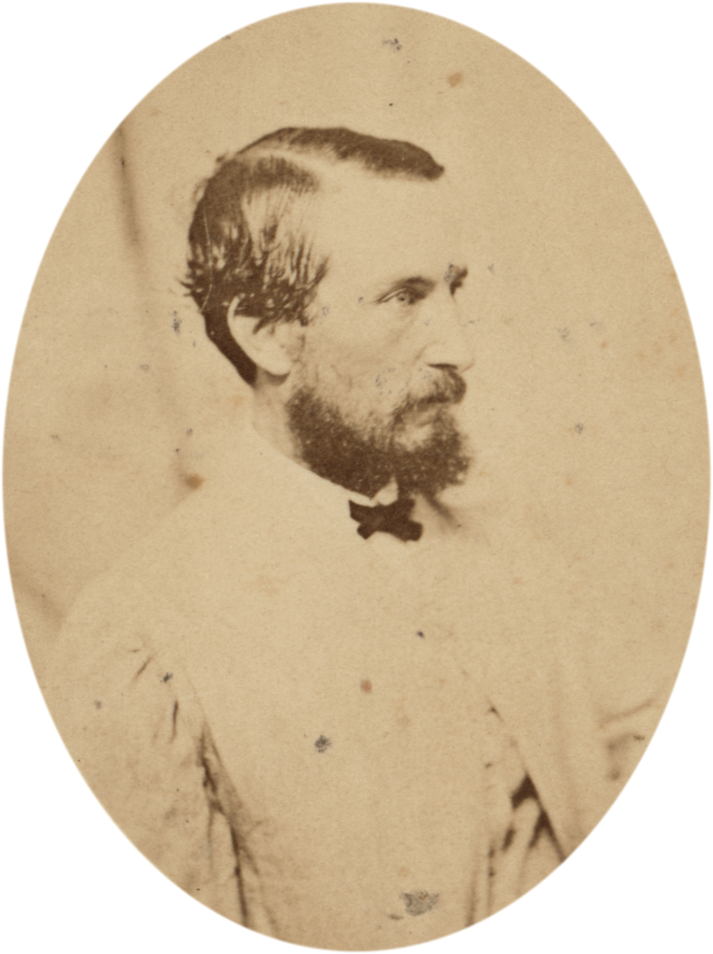 Henry James O'Farrell, author of the assassination attempt on Alfred, Duke of Edinburgh, ca. 1868, Montagu Scott, carte de visit print, State Library of New South Wales, P1/1259